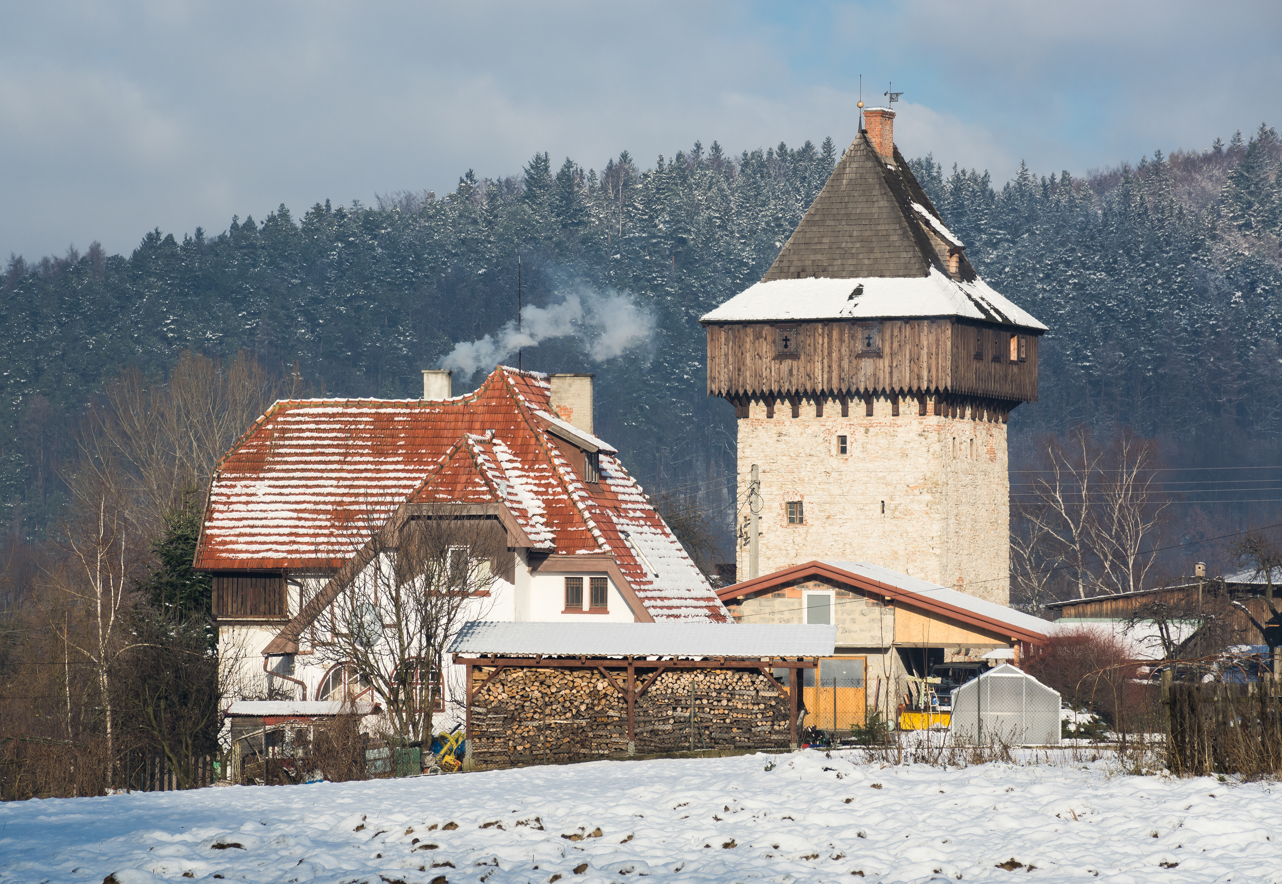 Tower house in Żelazno